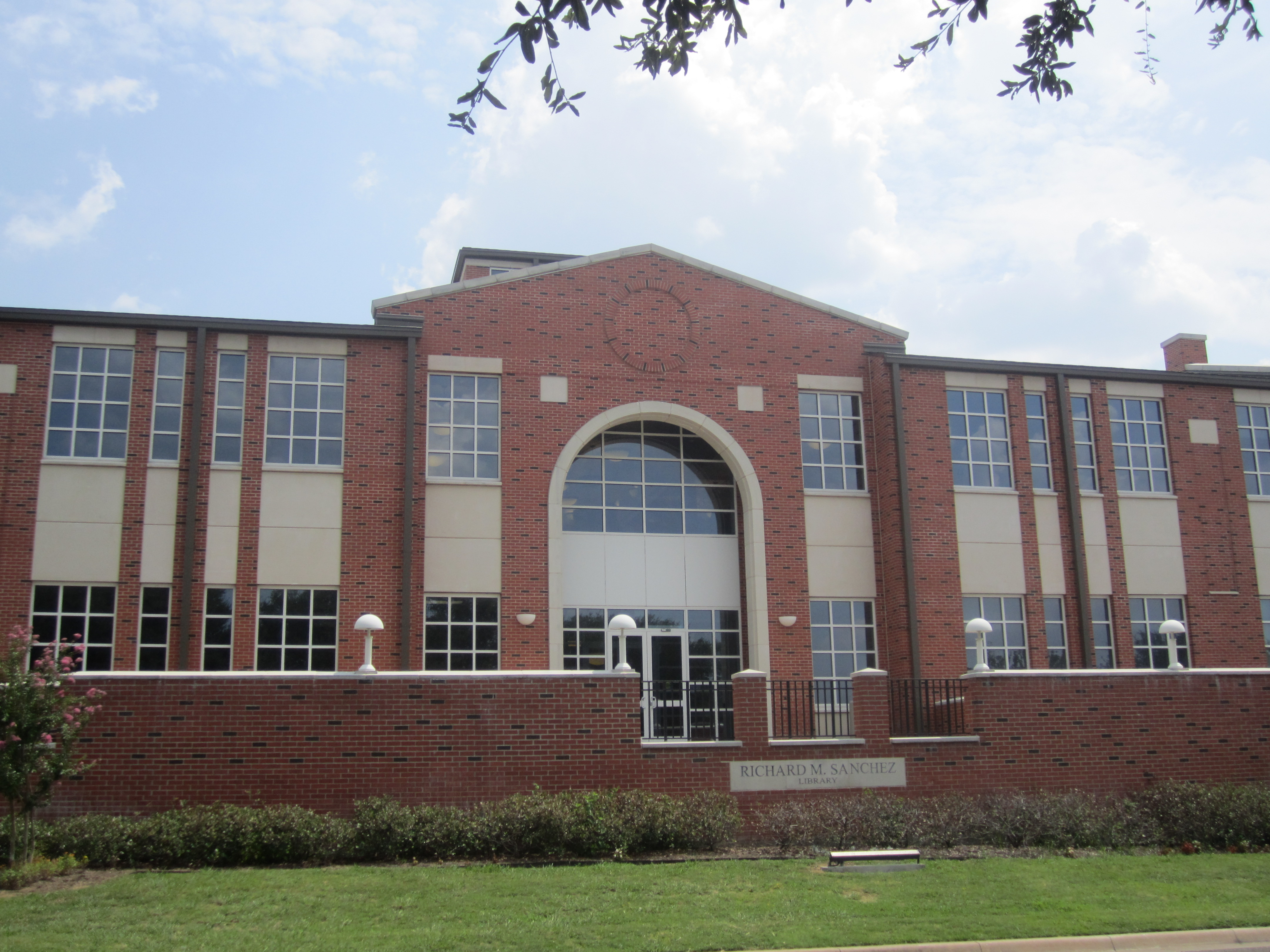 I took photo with Canon camera in Corsicana, TX.